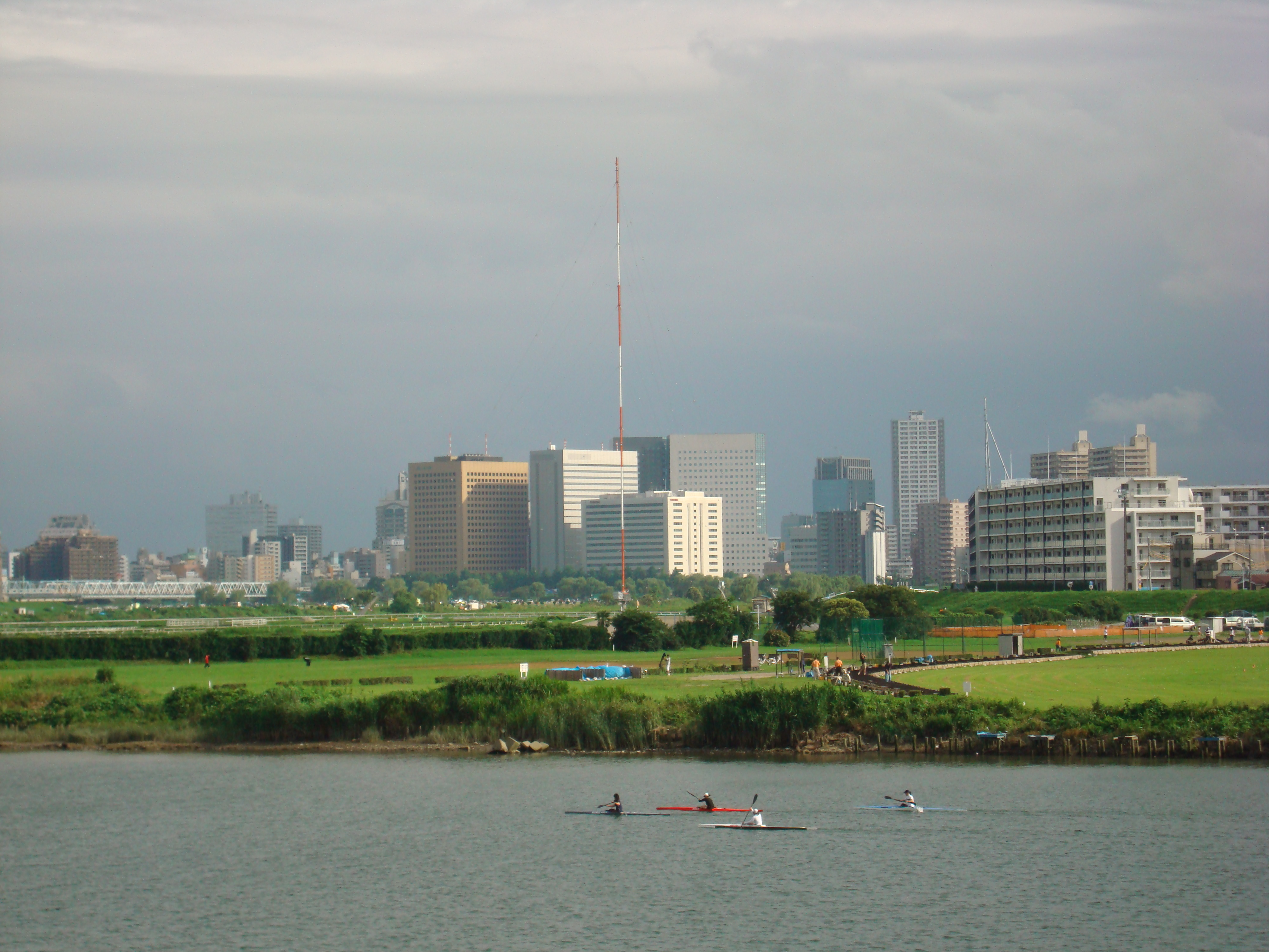 downtown of Kawasaki in Kanagawa, Japan, on the right bank of river Tama